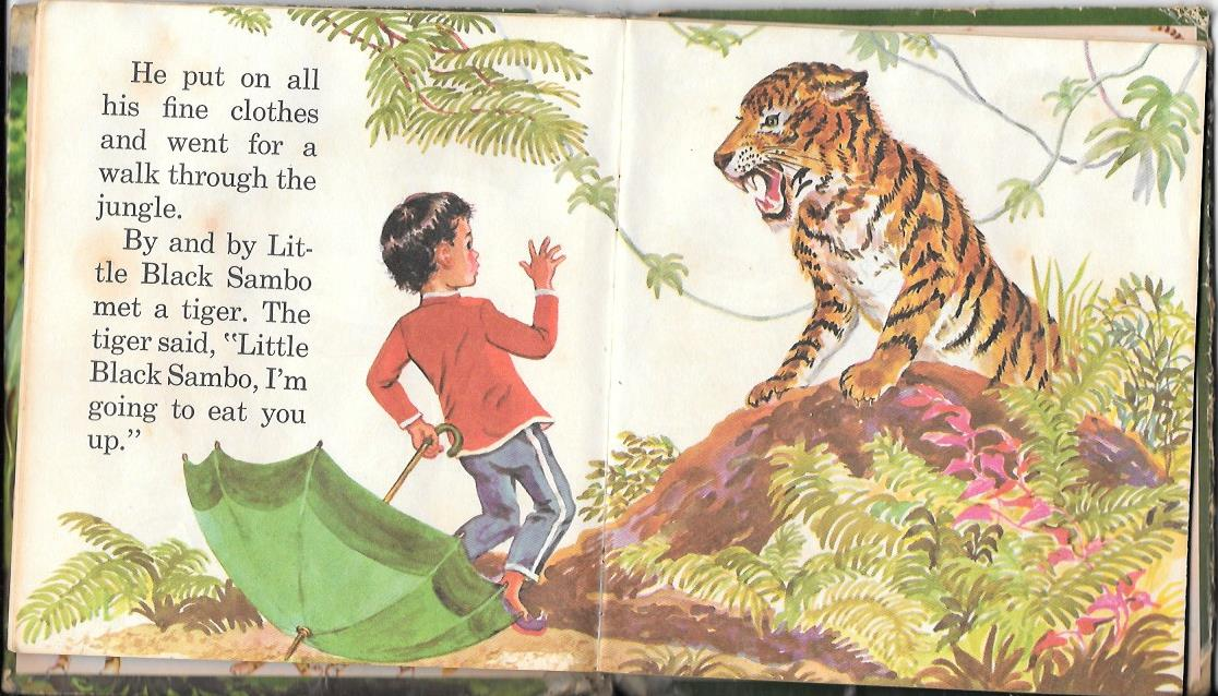 Page from 1961 Little Black Sambo